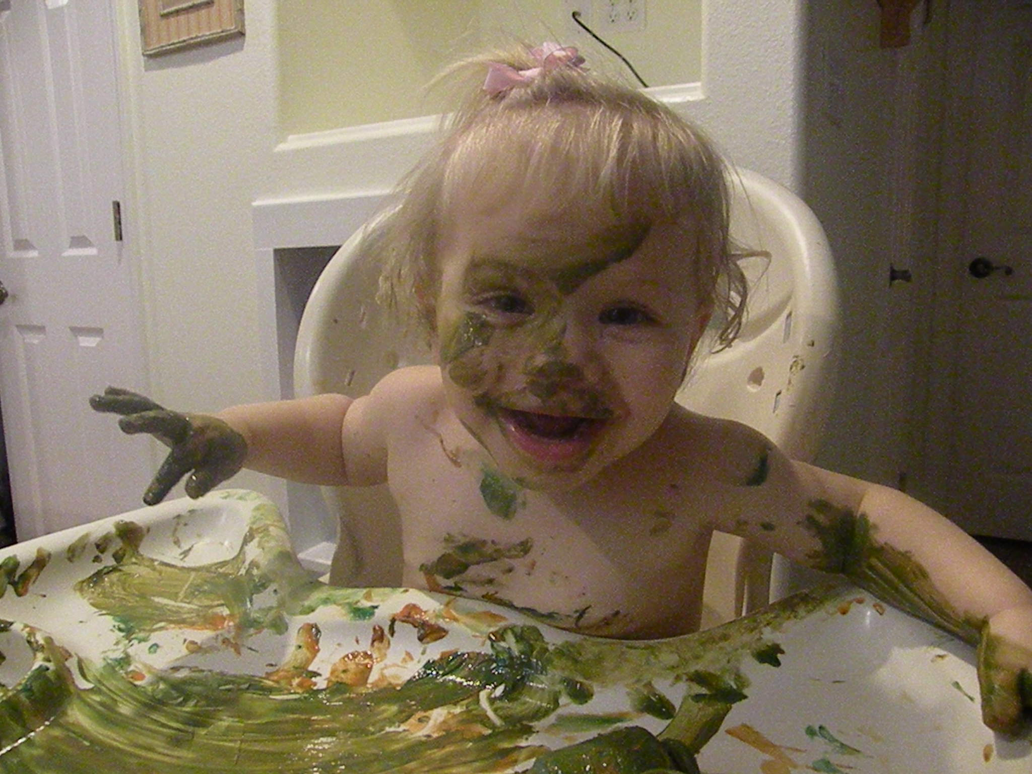 Toddler making a mess with paint or food.